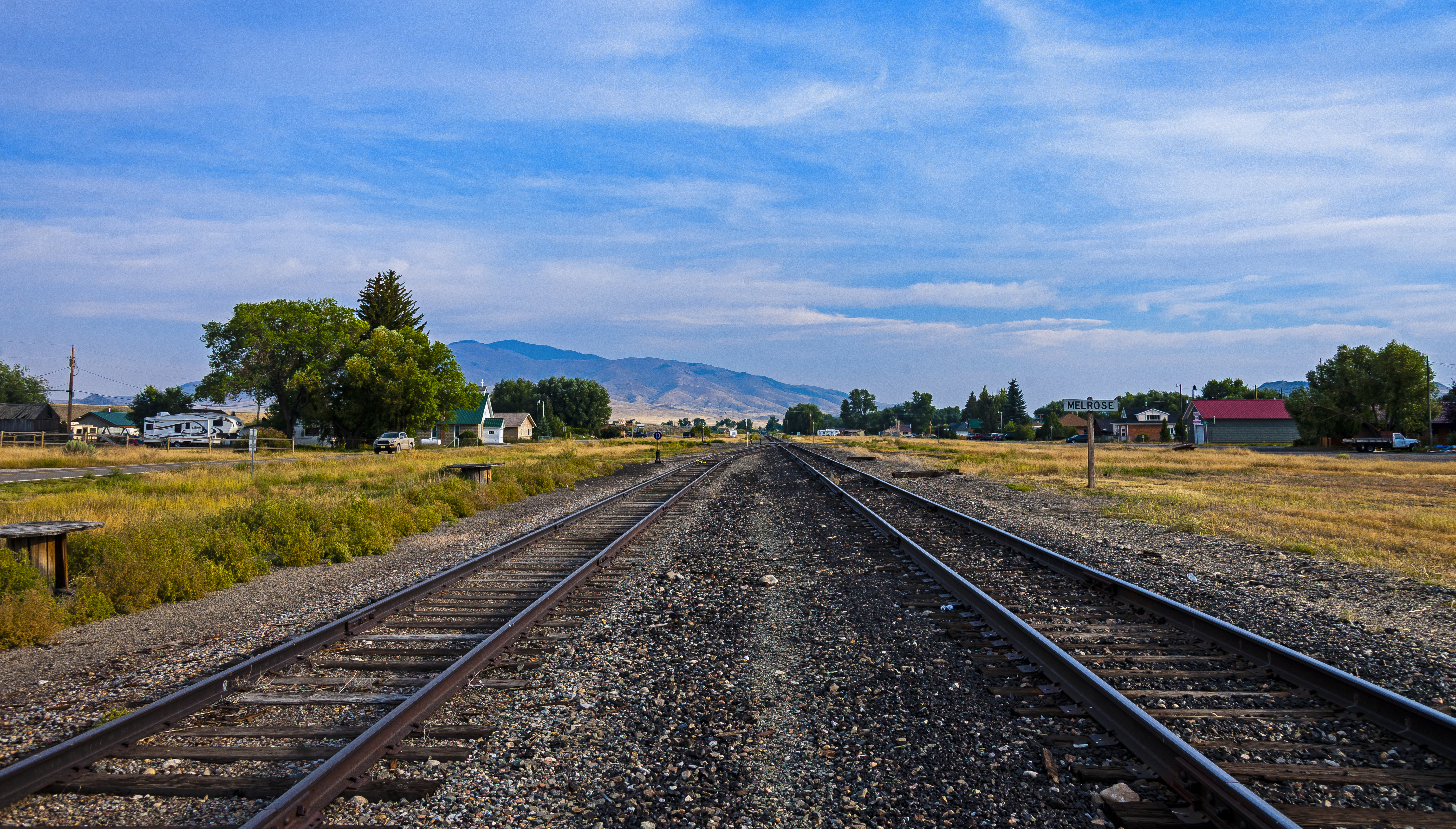 View of Melrose, MT, USA, from between a rail siding and (very infrequently used) main line next to a parking lot in the center of ... town, such as it is. Once a major stop on the railway, its economy is largely based on tourism now